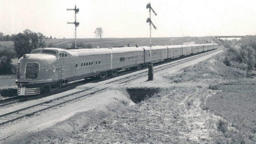 Publicity photo of the Union Pacific train City of Denver at the end of 1940.